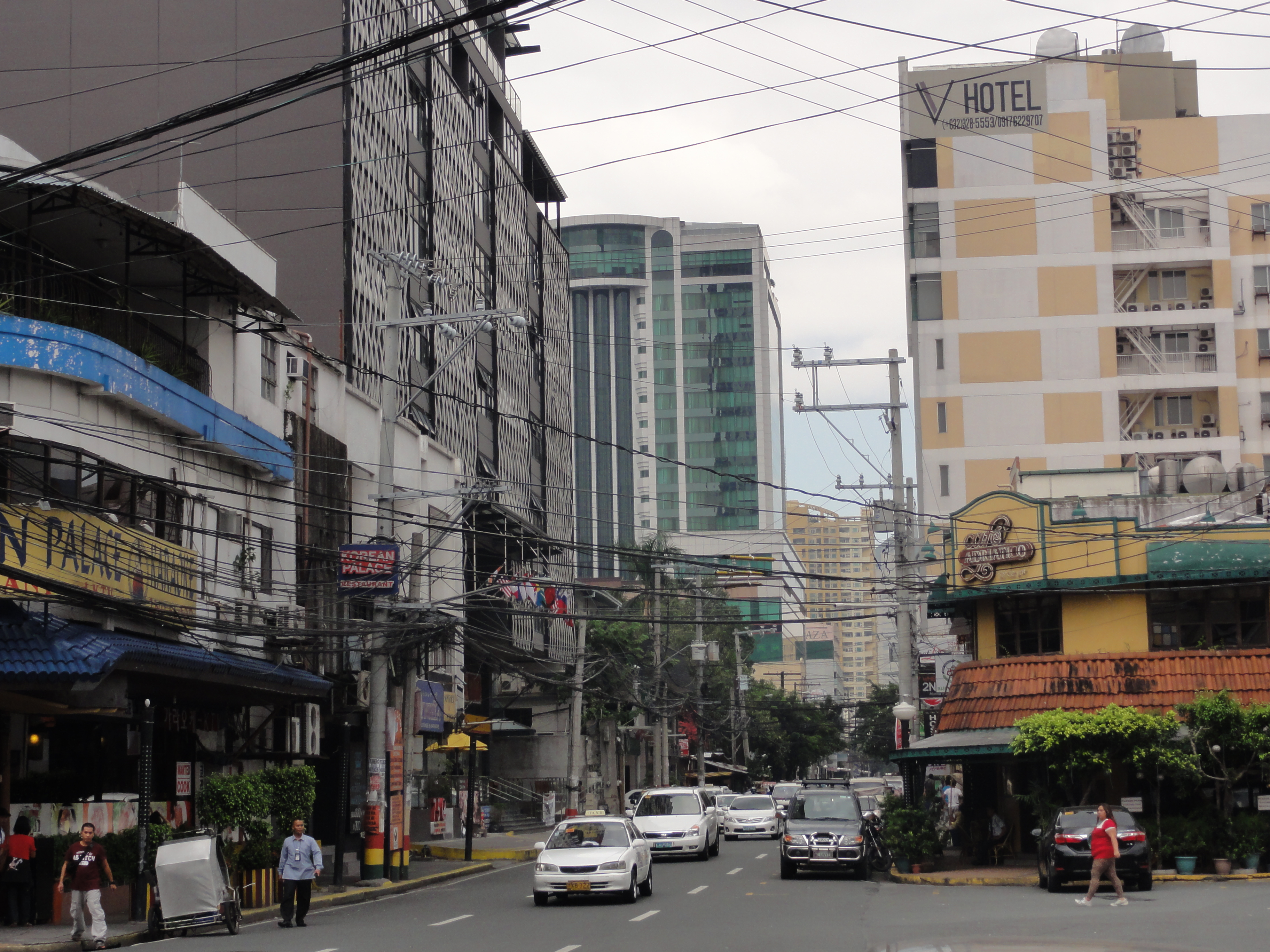 View of various entertainment establishments along Adriatico Street, Malate, Manila